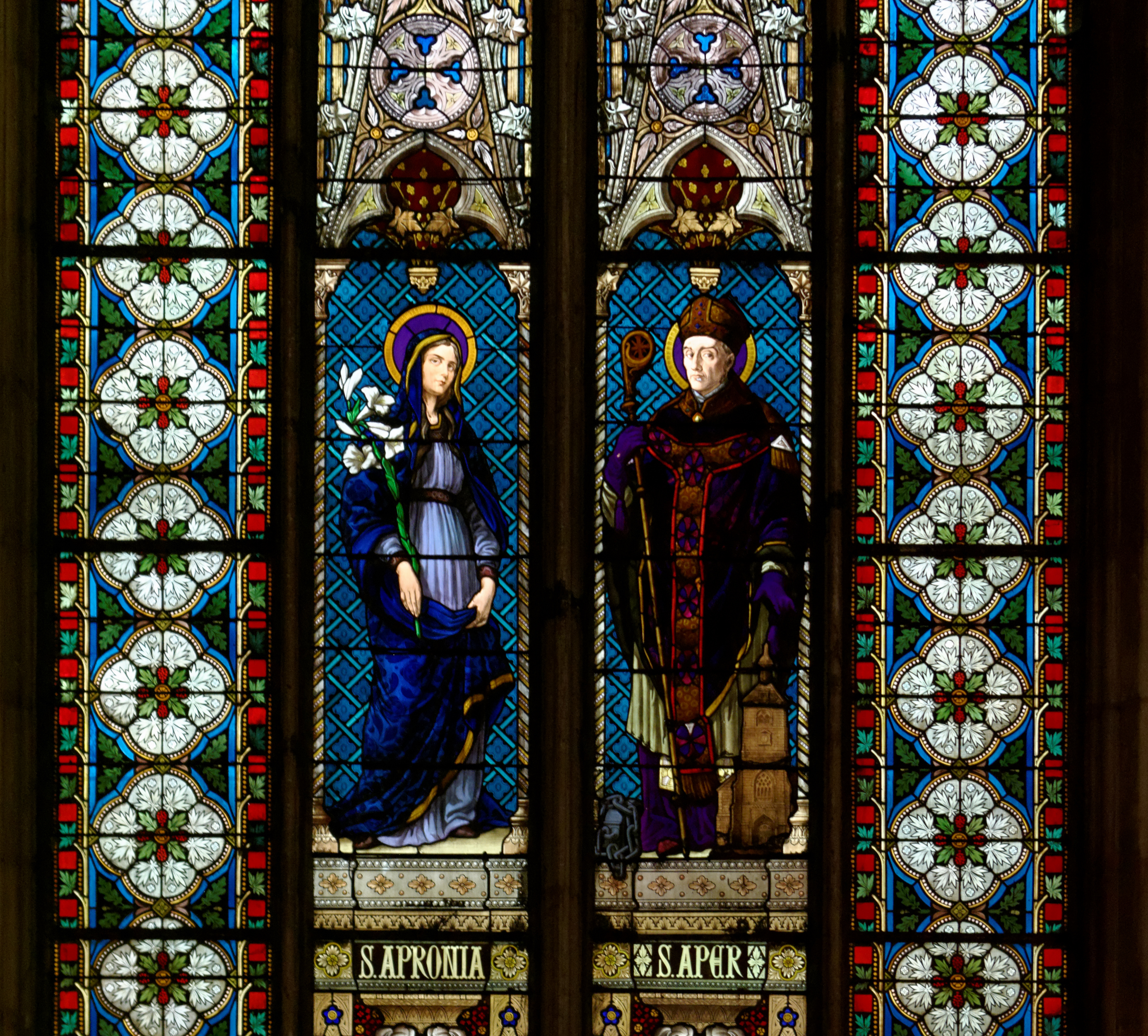 France, Nancy, Basilique Saint-Epvre